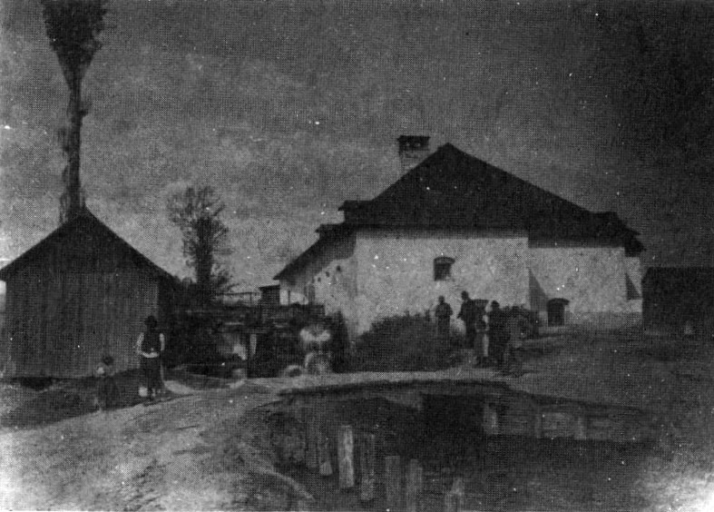 Felső Király mill Miskolc End of the 19th century